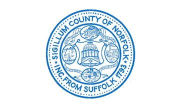 Norfolk County, Massachusetts Flag